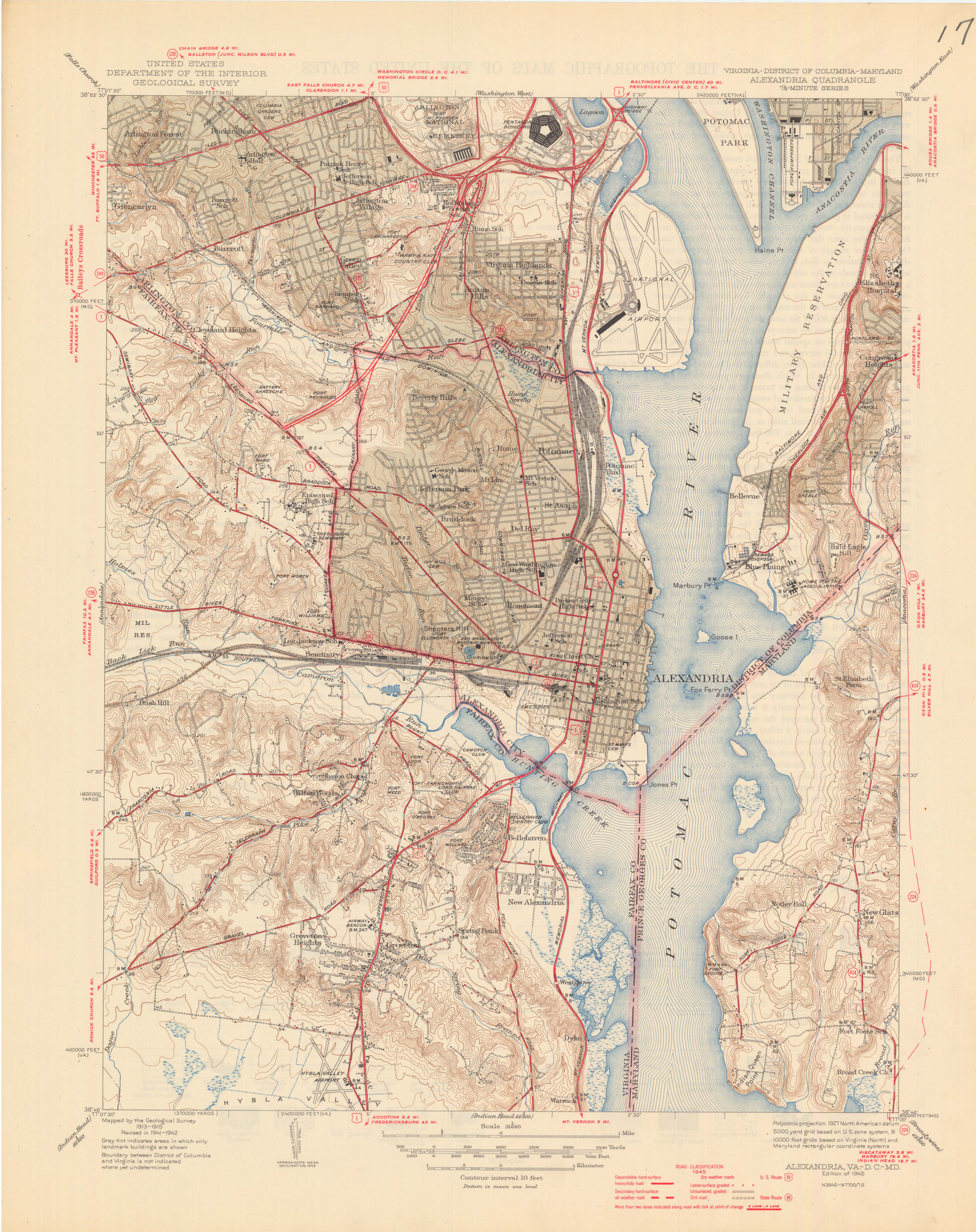 Mapped by the USGS 1913-1915, revised 1941-1942, road classification 1945